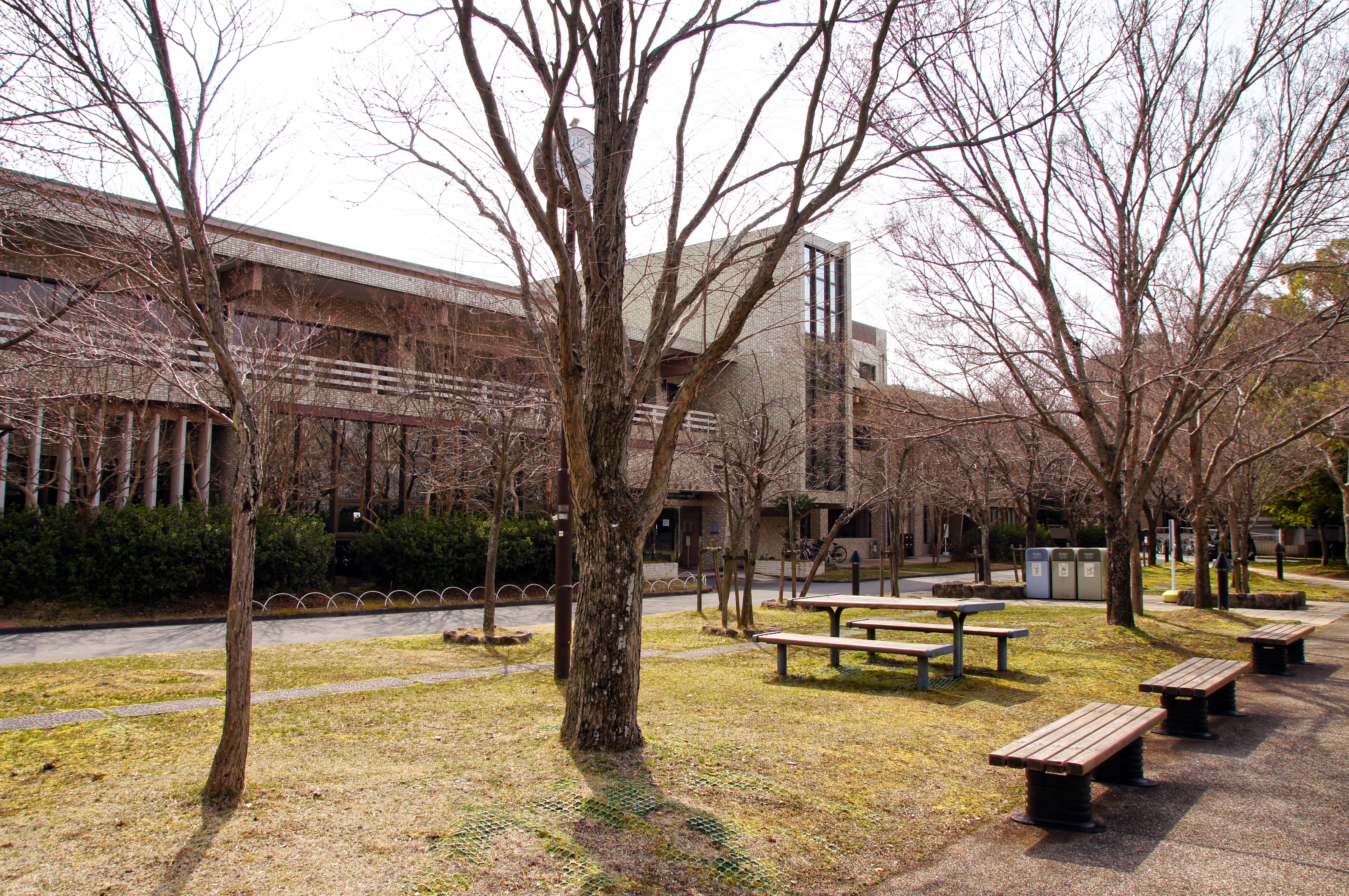 Nara Women's University in Nara, Nara prefecture, Japan.